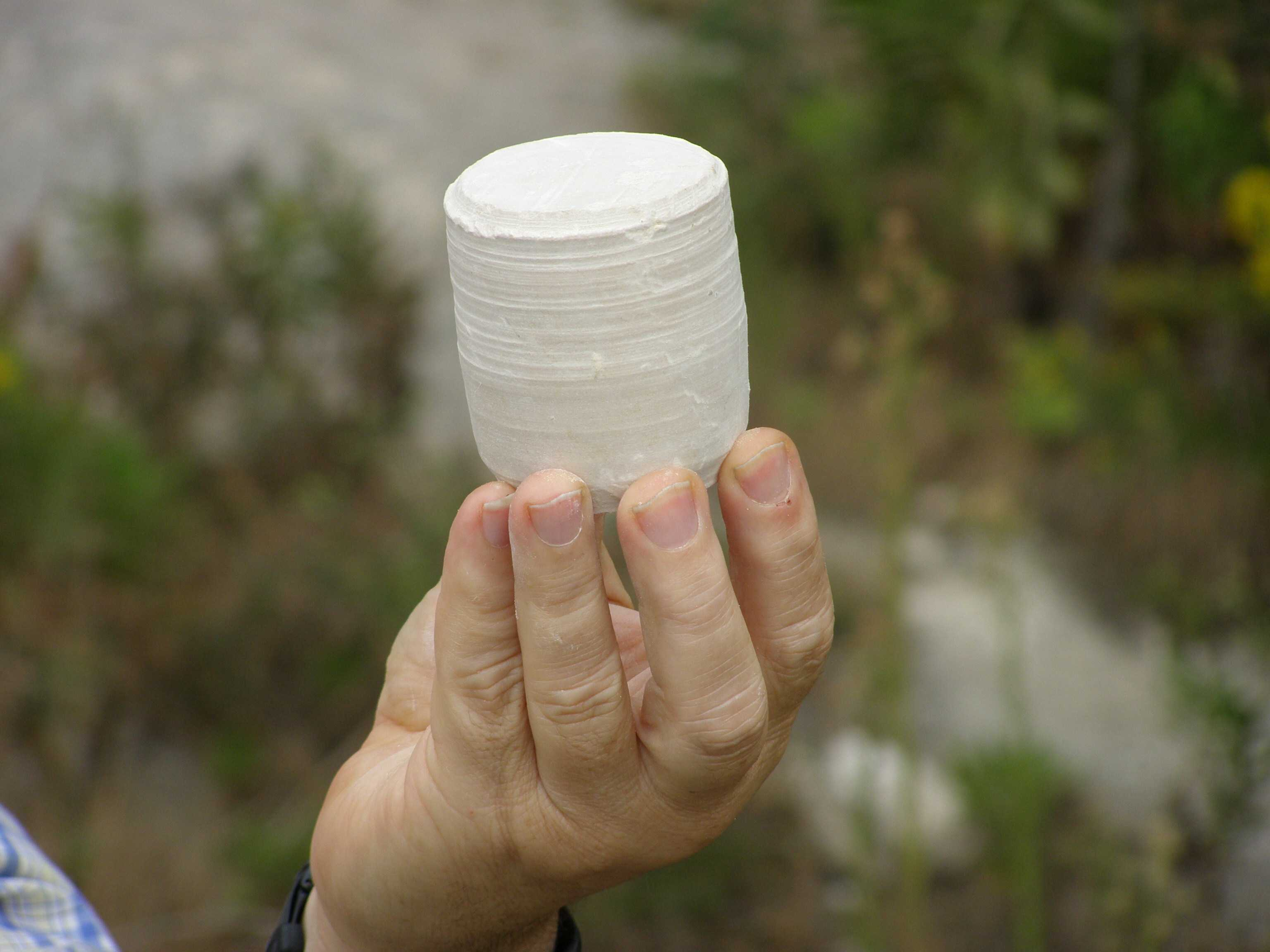 core of a stone made cup, dated to second temple era, excavated near Jerusalem, 2007